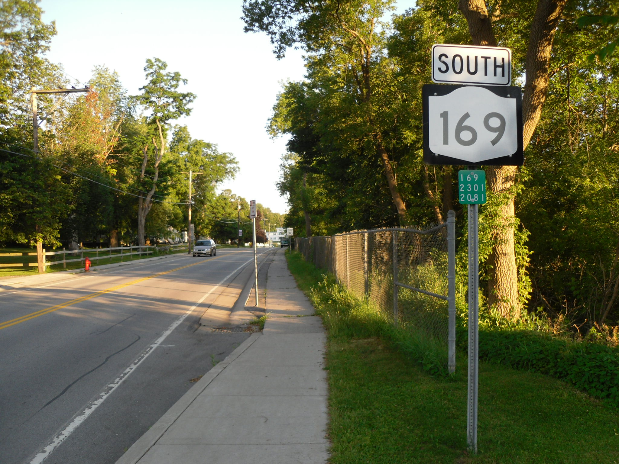 New York State Route 169 heading southbound around Milepost 8.1 between Little Falls and Middleville.